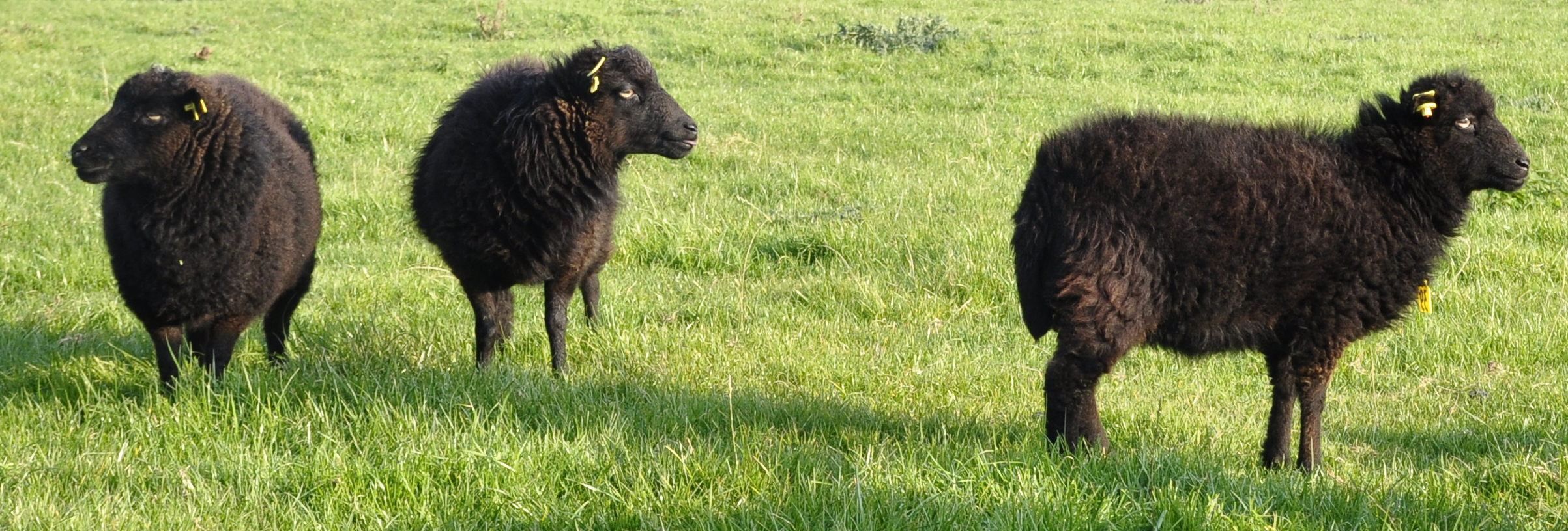 Ouessant sheep 3 black ewes